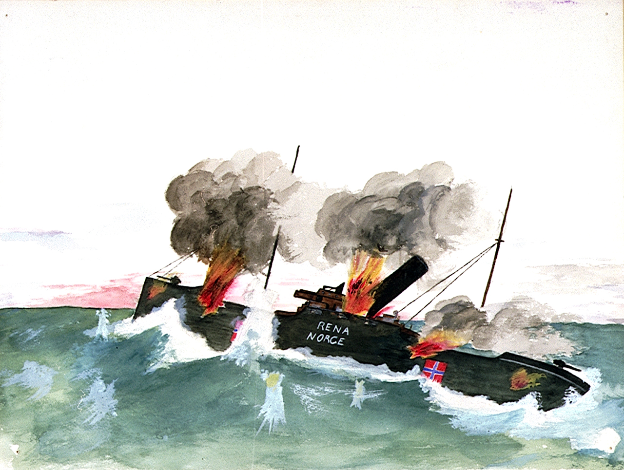 Destruction of the German raider 'Leopard', disguised as the Norwegian 'Rena', 1917 This vigorous, amateur watercolour by an unidentified hand - but possibly an eyewitness on one of the two British ships involved - records the end of the disguised German commerce raider 'Leopard'. She was built as the British-registered cargo vessel 'Yarrowdale' in 1912 and was captured by the famous German raider 'Möwe' on 11 December 1916 and taken to Germany. There she was fitted out as a commerce raider herself and prior to sailing on her first and only sortie was disguised as a neutral Norwegian ship with the name 'Rena', as shown here with 'Rena/Norge' and a large Norwegian flag painted on her sides. On 16 March 1917, while outbound in the Shetlands-Iceland passage, she was intercepted by the British armed boarding vessel 'Dundee'. A boarding party was sent across but the 'Leopard' launched two torpedoes at the 'Dundee' and opened fire. The 'Dundee' returned fire and there was a 30-minute close-range duel until the British armoured cruiser 'Achilles' came into range and opened fire, completing the destruction of the already badly damaged 'Leopard'. There were no survivors from the German ship and six men of the 'Dundee' boarding party were also lost. The drawing presumably shows the 'Leopard' on fire and listing under shell impact from the 'Achilles'.